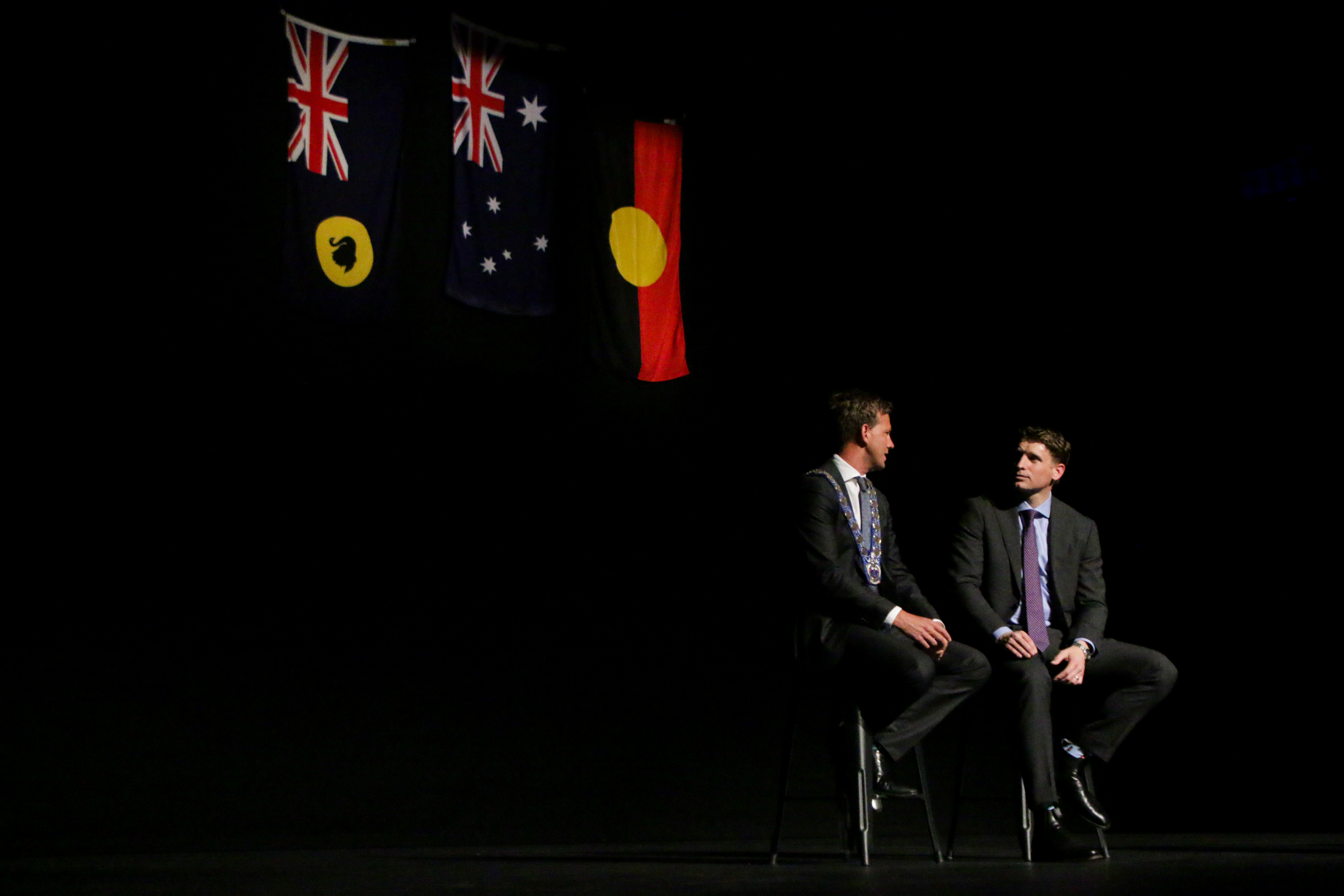 Andrew Hastie MP with Mayor Rhys Williams at March 2020 Citizenship Ceremony in Mandurah photo taken by D Birch